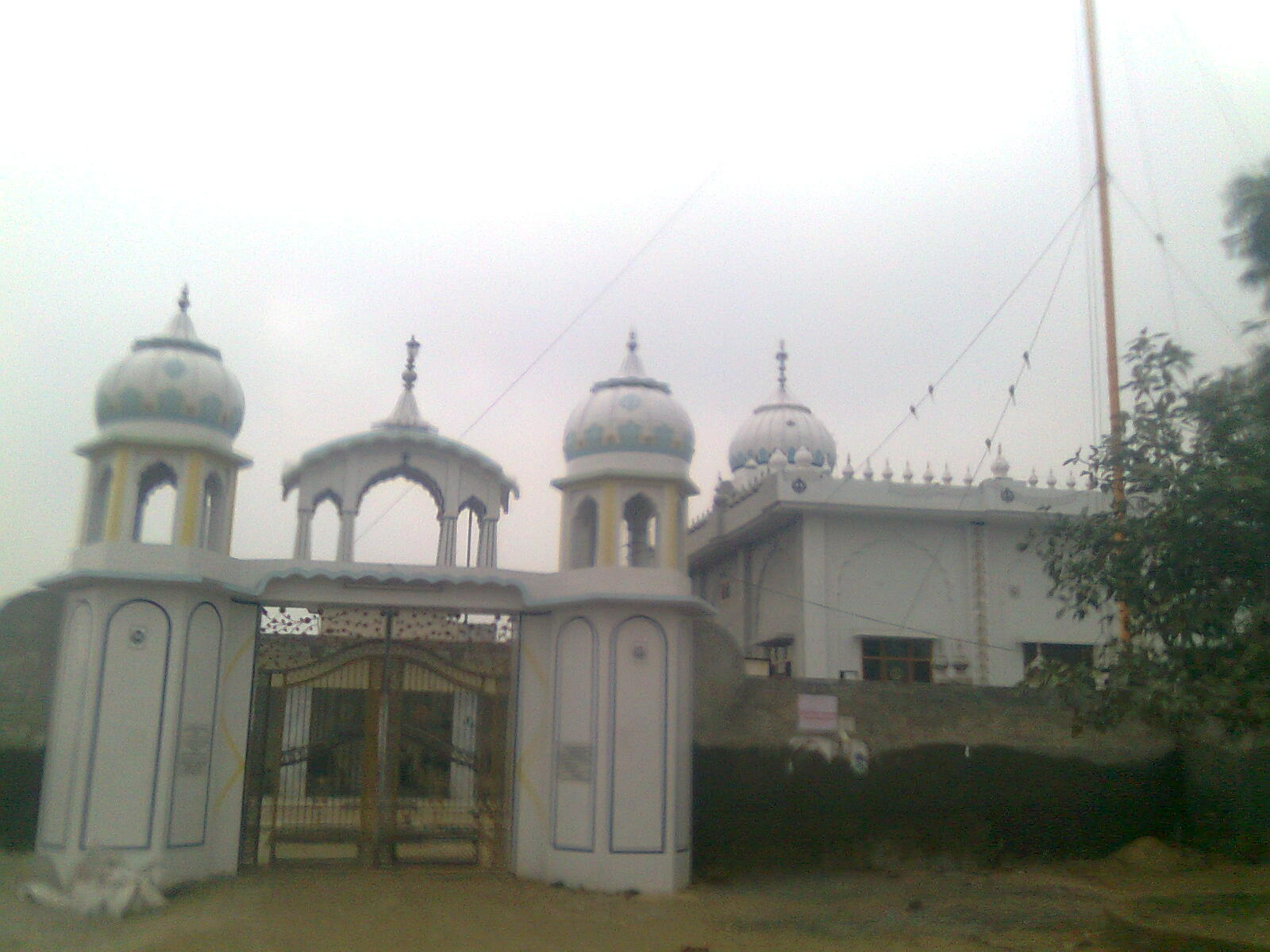 Outer view of the New building of Gurudwara Nanaksar Sahib in the Husnar village of Sri Muktsar Sahib district in Eastern Punjab (India).